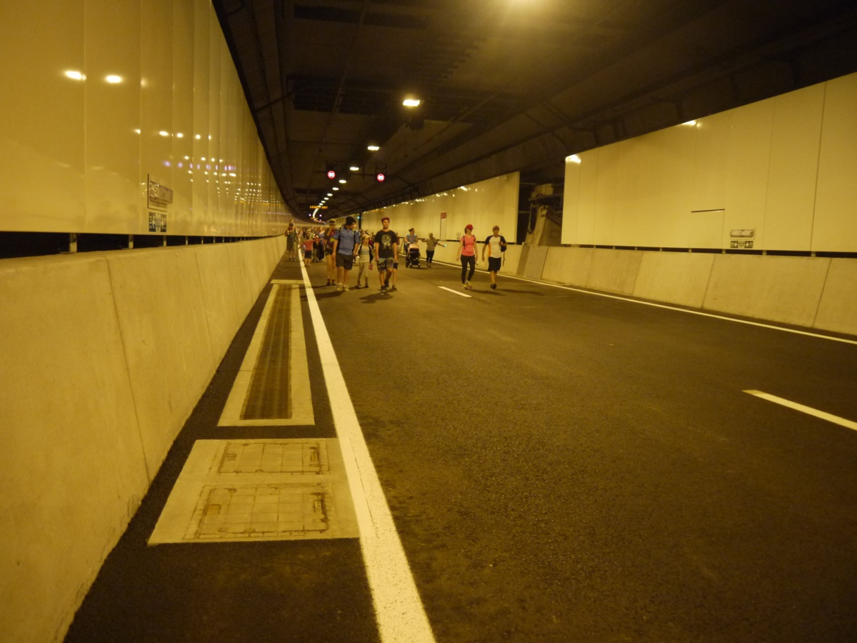 Lowest point of the Legacy Way in Brisbane (westbound direction), located about 40 metres under Fernberg Road in Paddington Image taken during public walk through day 31 May 2015